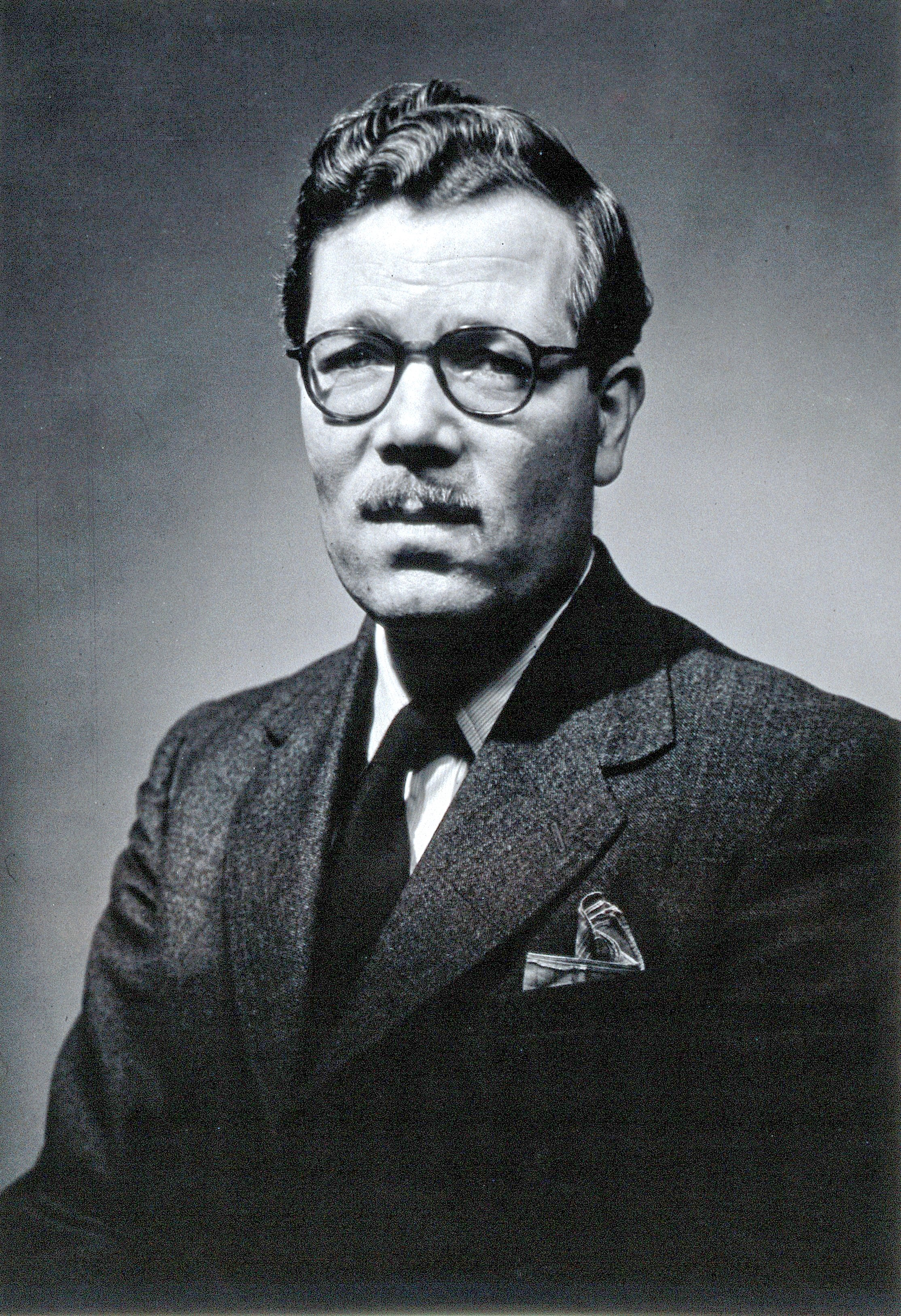 Frederick Noël Lawrence Poynter. Photograph. Iconographic Collections Keywords: portrait photographs